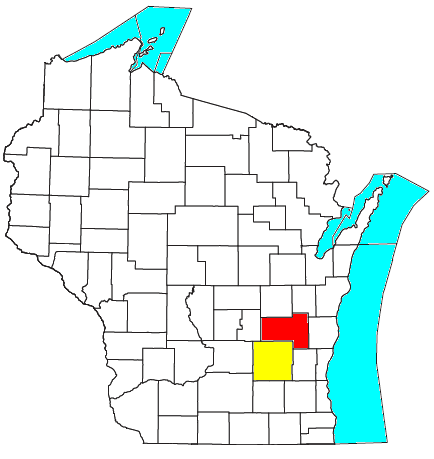 Locator map of the Fond du Lac-Beaver Dam Combined Statistical Area in the southeastern part of the U.S. state of Wisconsin. The two components of the CSA are colored separately: Fond du Lac Metropolitan Statistical Area: red Beaver Dam Micropolitan Statistical Area: yellow